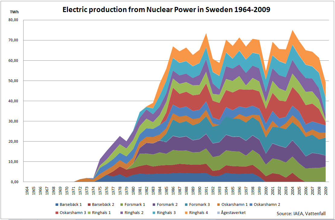 Electric production from Nuclear power in sweden 1964-2009